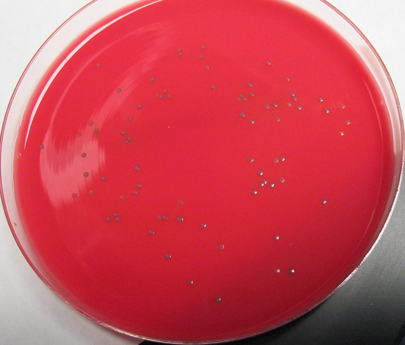 Listeria monocytogenes grown on Bio-Rad RAPID'L.Mono® Agar